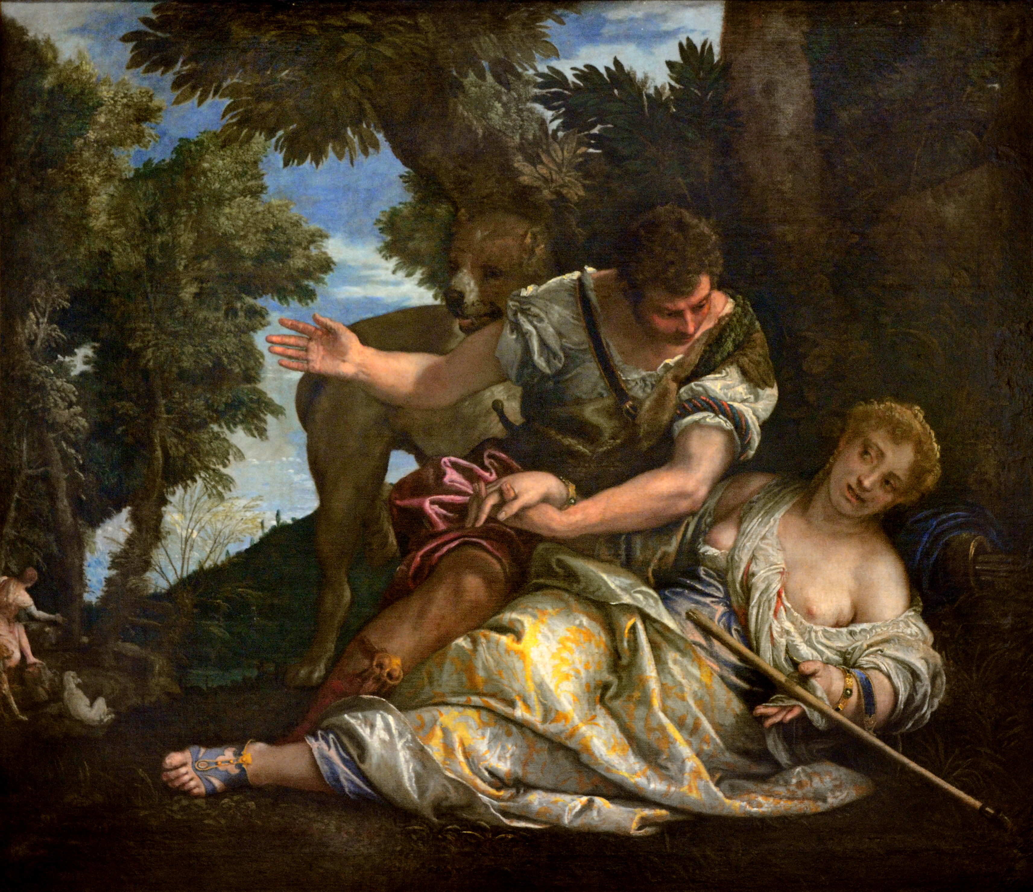 Cephalus and Procris, Paolo Veronese, c. 1580. Oil on Canvas. Bought in 1912. Accession number: 634